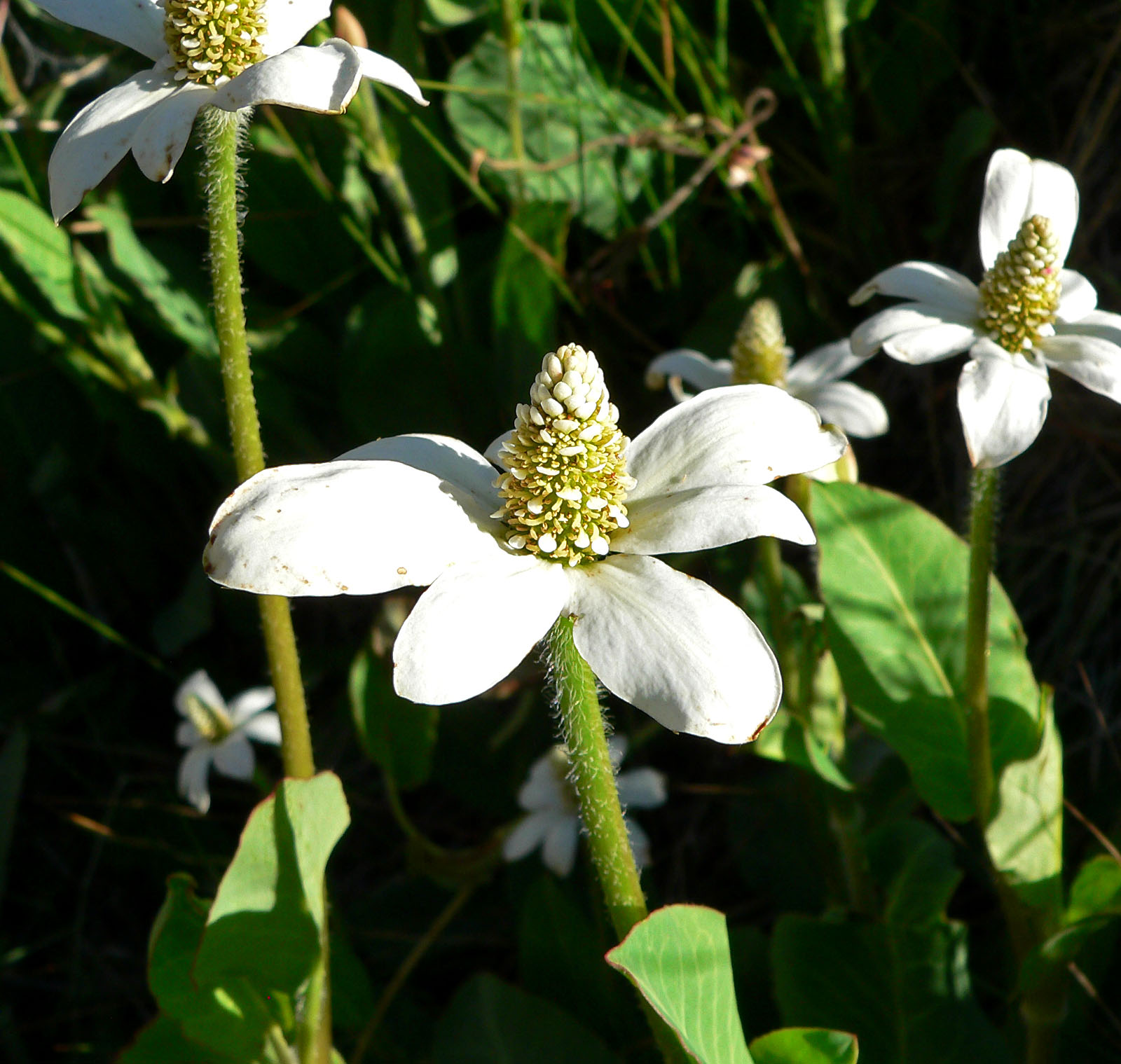 Anemopsis californica in Calico Basin, west of Las Vegas, Nevada